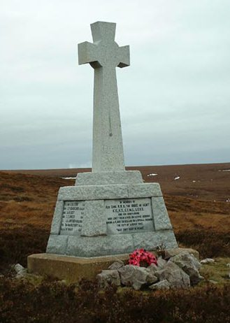 Eagle's Rock, near Braemore, Caithness. Eagle's Rock Memorial is where the Duke of Kent's plane crashed. There is no evidence that Rudolph Hess was actually on the plane but it is a famous rumour.